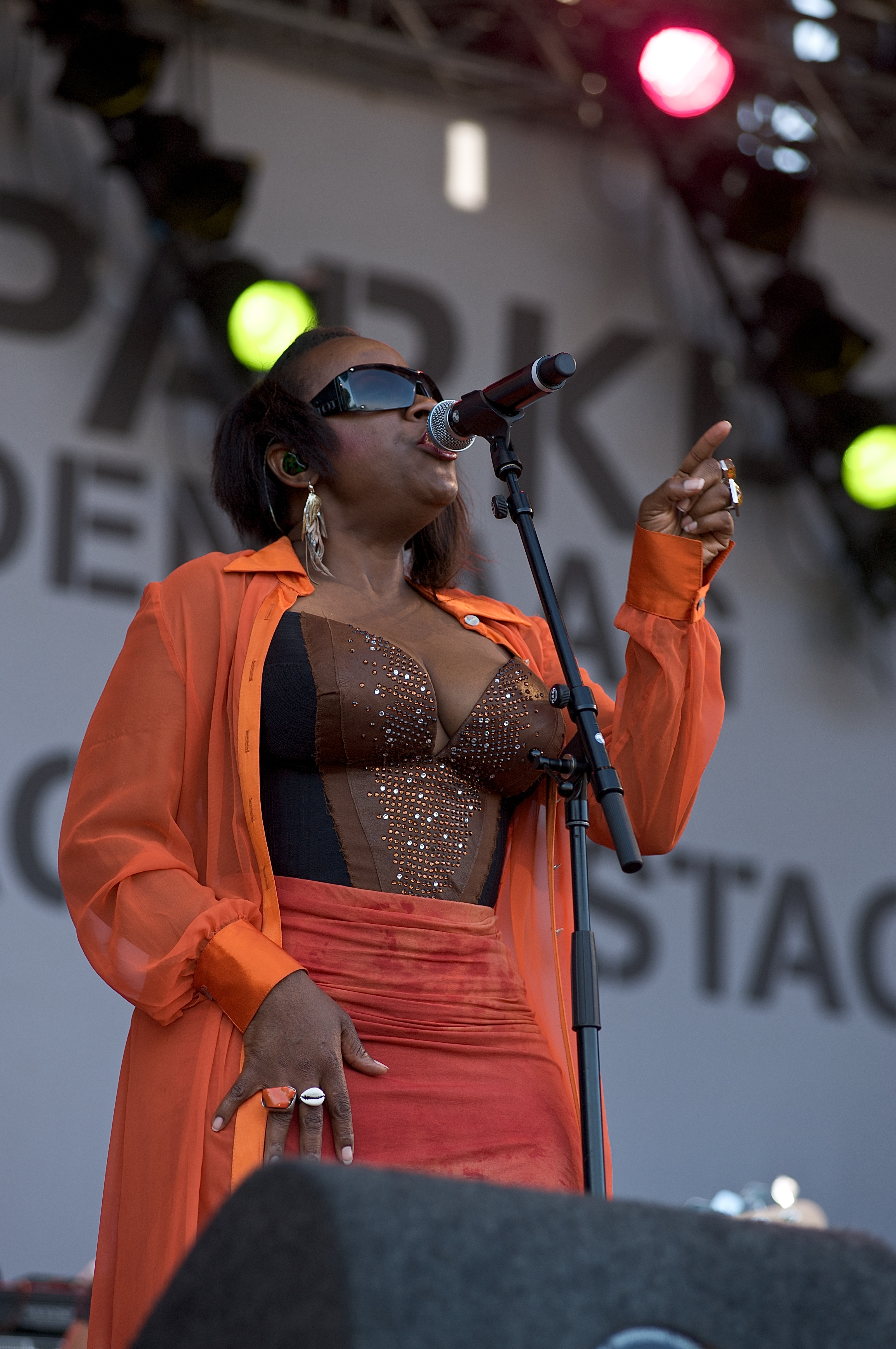 Sandra St. Victor's Sinner Child performance during the Parkpop Festival in Holland 2010